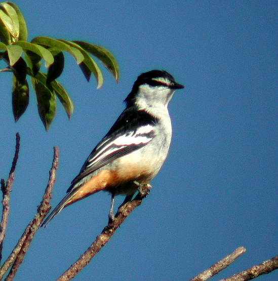 Male Varied Triller Lalage leucomela Dayboro, SE Queensland, Australia